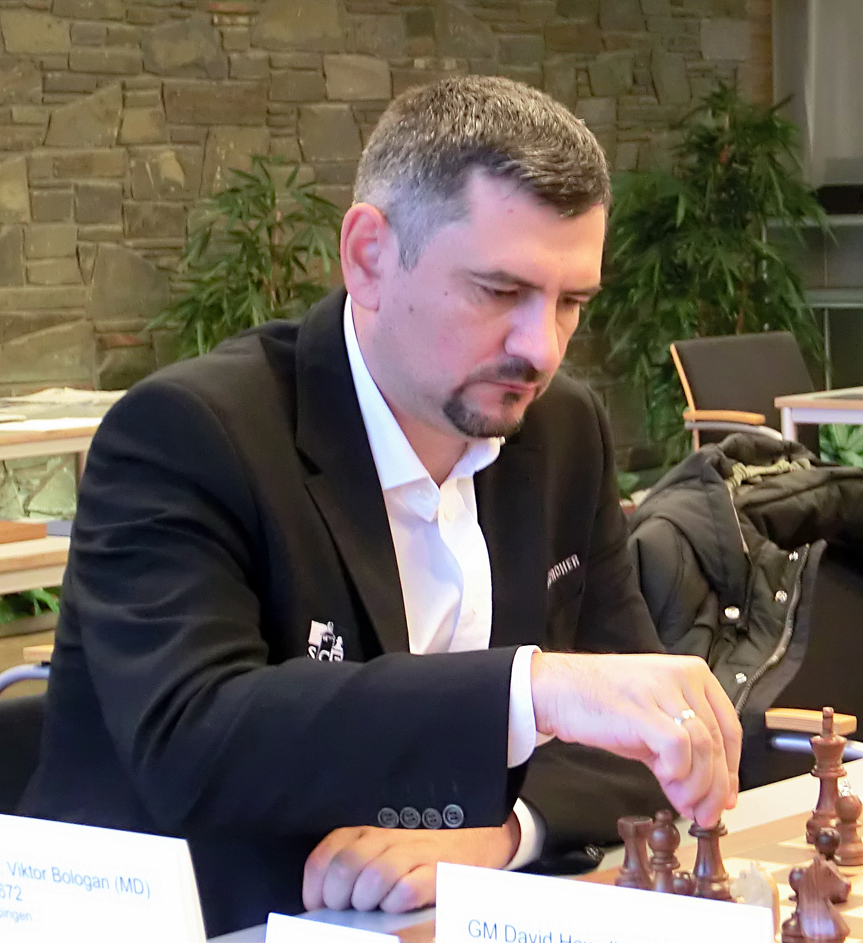 Victor Bologan, chess grandmaster from Moldova